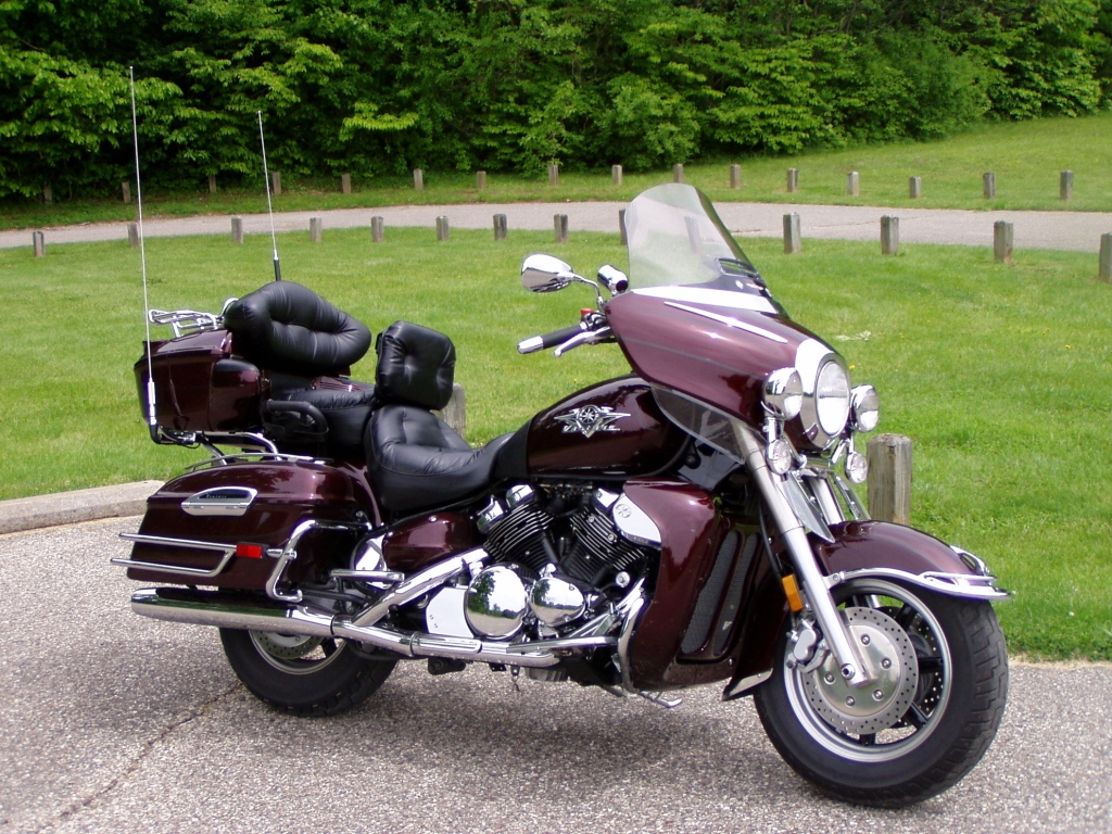 Photo by Steve Bumgardner. Taken 6 May 2006 at Turkey Run State Park in Rockville, Indiana.